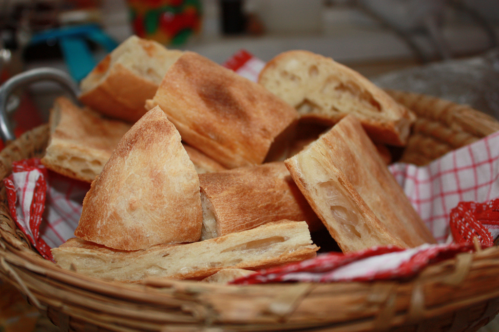 Lavash (Persian: لواش, Armenian: լավաշ, Georgian: ლავაში, Azerbaijanian: lavaş, from Turkish: lavaş; also known as lahvash or cracker bread) a soft, thin flatbread of Georgian origin made with flour, water, and salt. It is the most widespread type of bread in Iran, Armenia, Azerbaijan and Georgia.